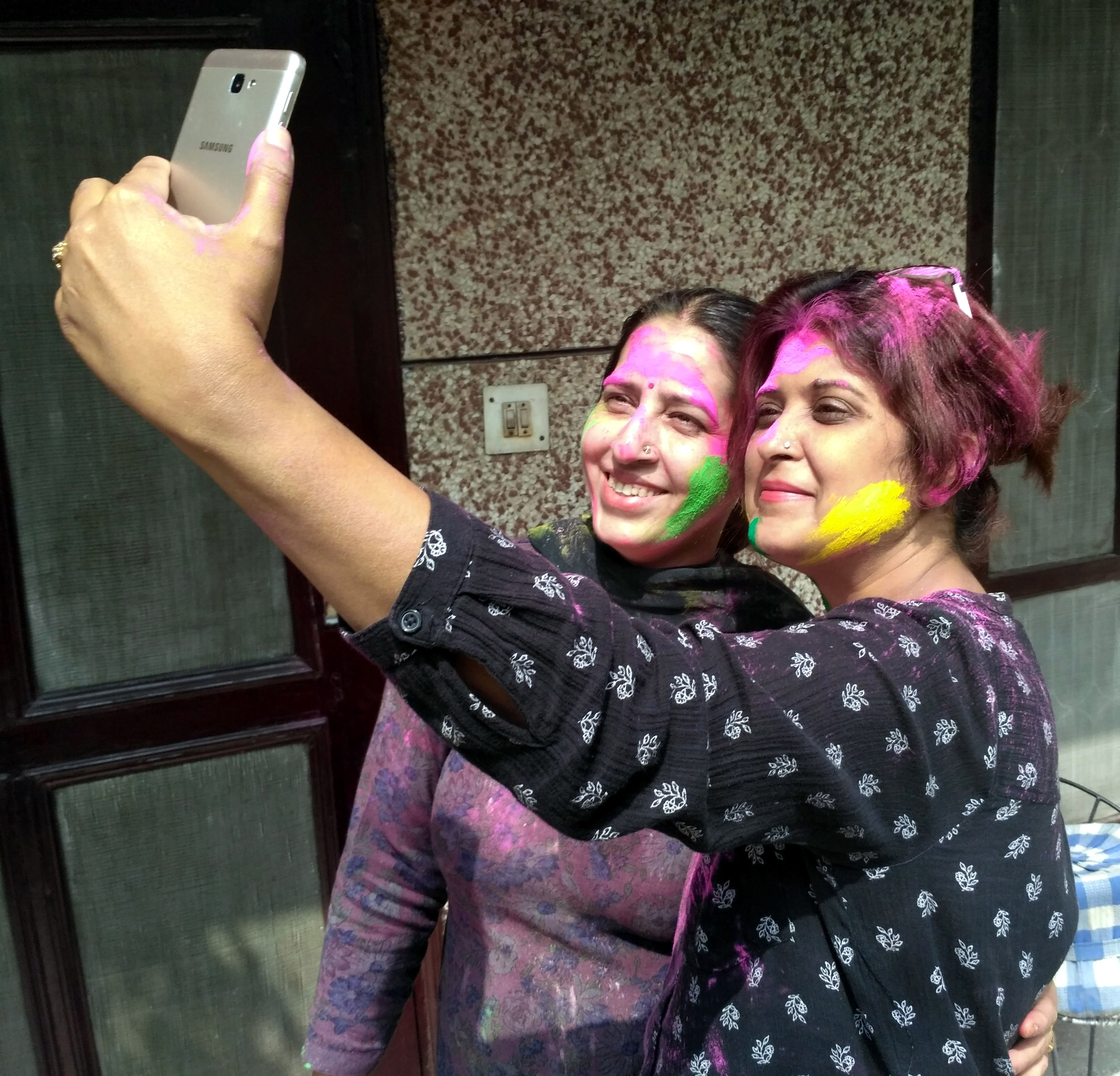 While playing Holi, the festival of colors and having selfie with their smartphones